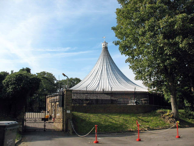 The Rotunda, Woolwich. The Rotunda is an unusual 24-sided building with a tent-like roof, designed by John Nash and built in 1814 (moved from its original location to the Royal Artillery site at Woolwich in 1820). It was used for military training purposes and later as the regimental museum 'Firepower', which moved to the Royal Arsenal site circa 2003. This building is not presently open to the public, but is listed grade II* and on the English Heritage 'buildings at risk register' as its future seems uncertain.